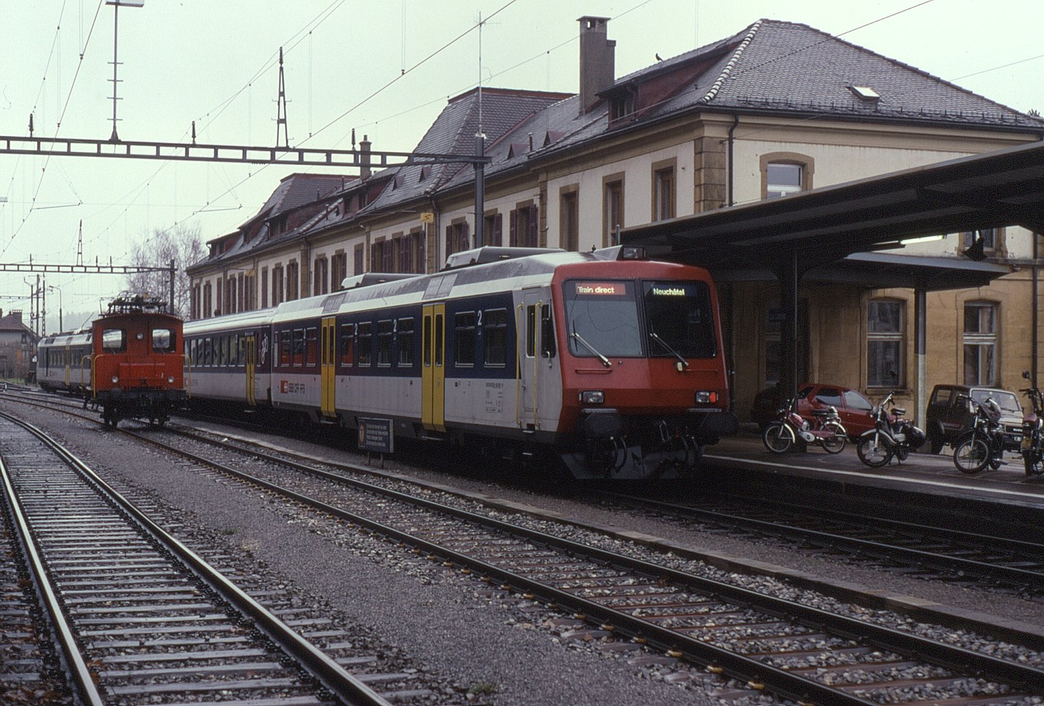 With 4 prototypes appearing and the remaining 131 delivered from 1987, seen here is an example of the NPZ (Neue Pendel Zug). However, more officially, they are branded "Kolibri" . Designed for local services on the SBB network, they operated with trailer sets of varying length. As such they have a driving cab only at one end (as seen here) with a gangway through to other vehicles. Originally classified RBDe, they now officially carry the three figure class number, 560. Sets have been rebuilt and numbered into either fixed formed 3 or 6 car sets. In addition, further ones have been rebuilt/renumbered to work cross-border trains into France and Germany. On 10 November 1998, 560.055 "Saint Blaise" is seen at the end of its journey on train 4466,11:08 Neuchâtel to Le Locle.